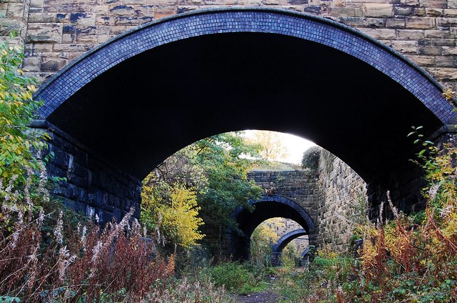 Heckmondwicke cutting-The Leeds new line This overgrown railway cutting in Heckmondwike,Yorkshire was on the L.N.W.R Heaton Lodge - Farnley Junction Leeds (Leeds New Line) The line was opened in 1900 and closed in 1965. There are a total of 6 overbridges, and the 50 yd Cook lane tunnel in this short section of cutting. This section of line is between Heckmondwicke, and Liversedge stations, It remained in use between Heckmondwike Spen goods yard, and the oil terminal at Liversedge until 1986. Charrington Hargreaves oil terminal was at the former Liversedge Spen Goods Yard. The terminal was mothballed in 1986. The building of the Leeds New line involved a tremendous amount of earth works. for many more Leeds new line engineering feats in pictures including Gildersome tunnel.